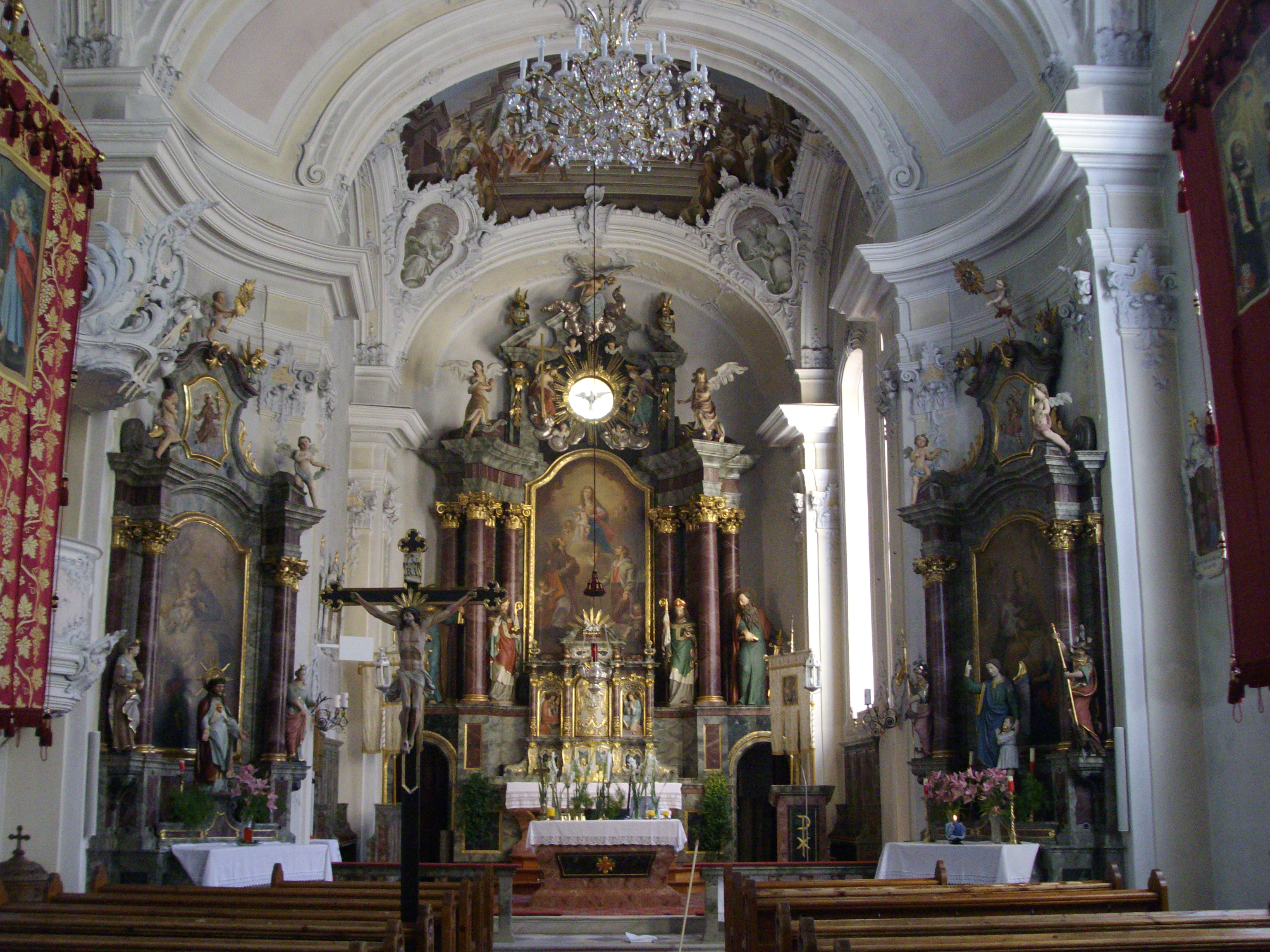 Austria, Tyrol (state), Vals, Hl. Jodok und Isidor. The nave.